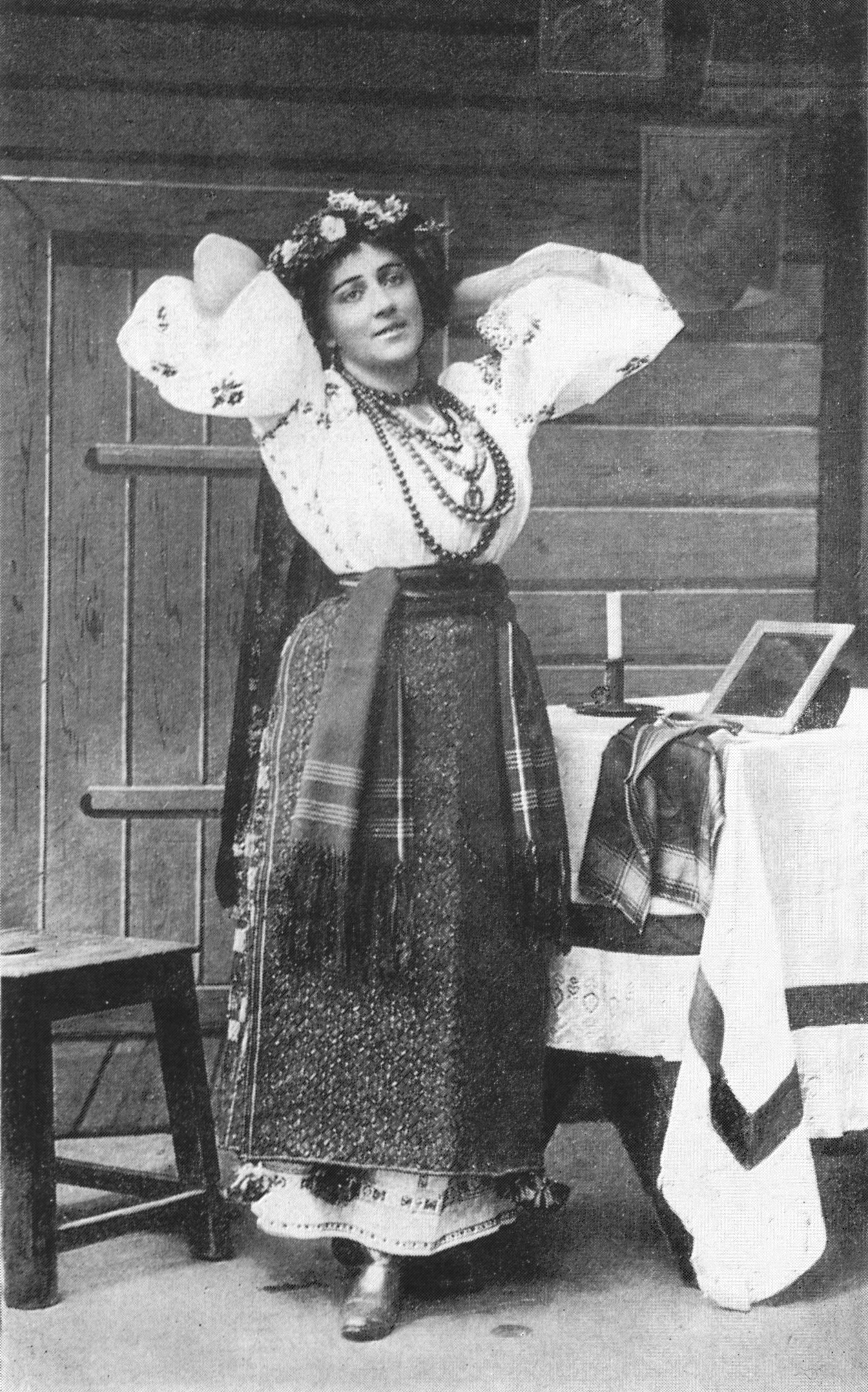 Nikolai Rimsky-Korsakov - Christmas Eve - Yevgeniya Mravina as Oxana, 1895